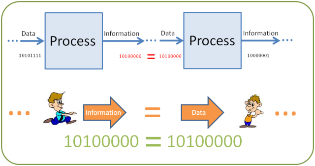 Data and information